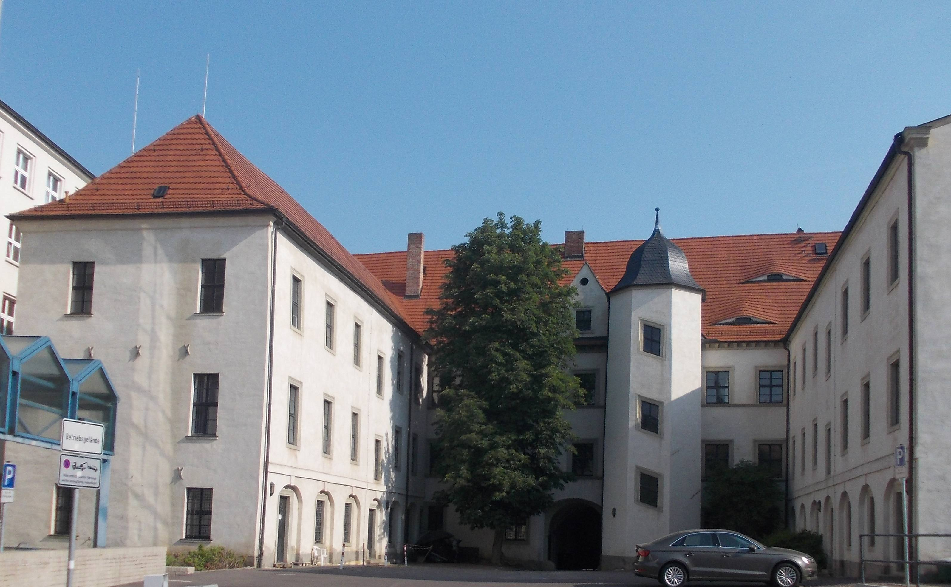 Von Jena's Ladies Foundation in Halle/Saale (Saxony-Anhalt)